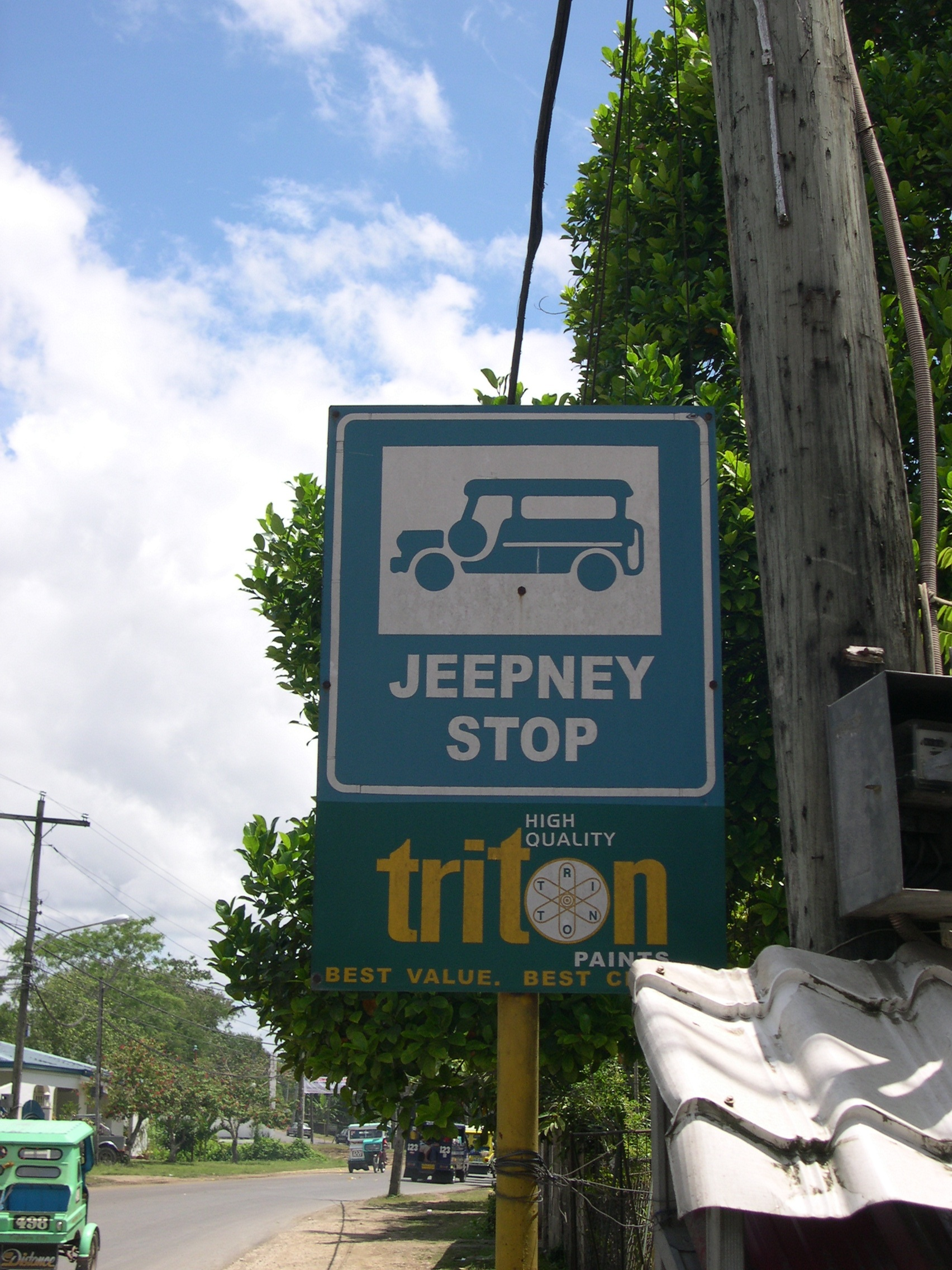 A sign indicating a location where jeepneys make a stop in the Philippines Picture taken by Magalhães 10:09, 30 March 2006 (UTC) on 26th of March 2006